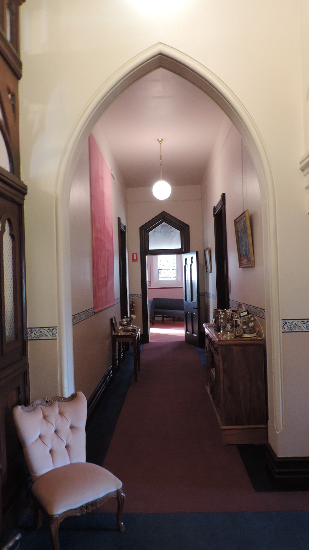 Our Lady of Assumption Convent, Warwick - internal corridors, 2015